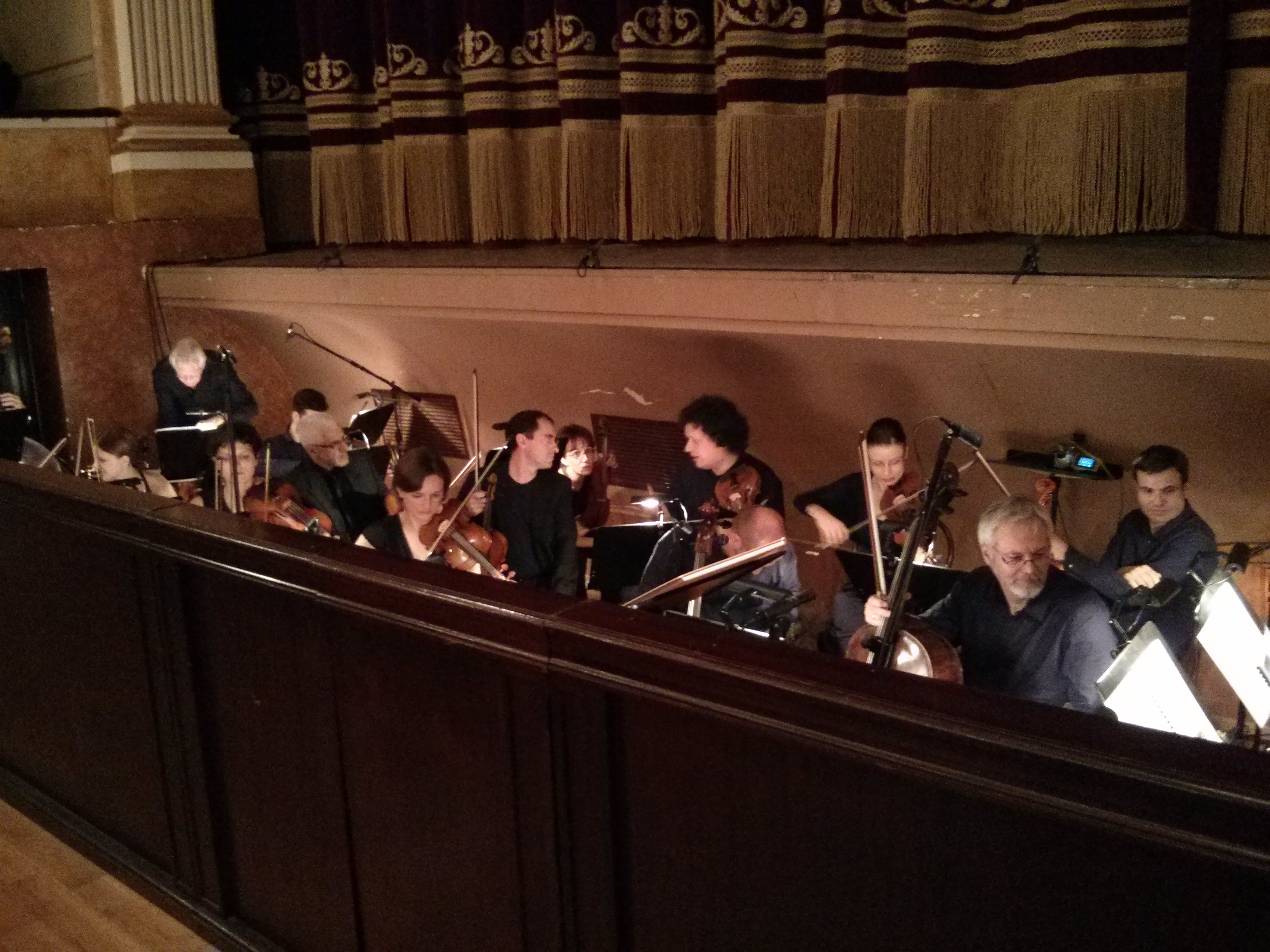 Flavio Vespasiano Theatre - Rieti (Lazio, Italy)